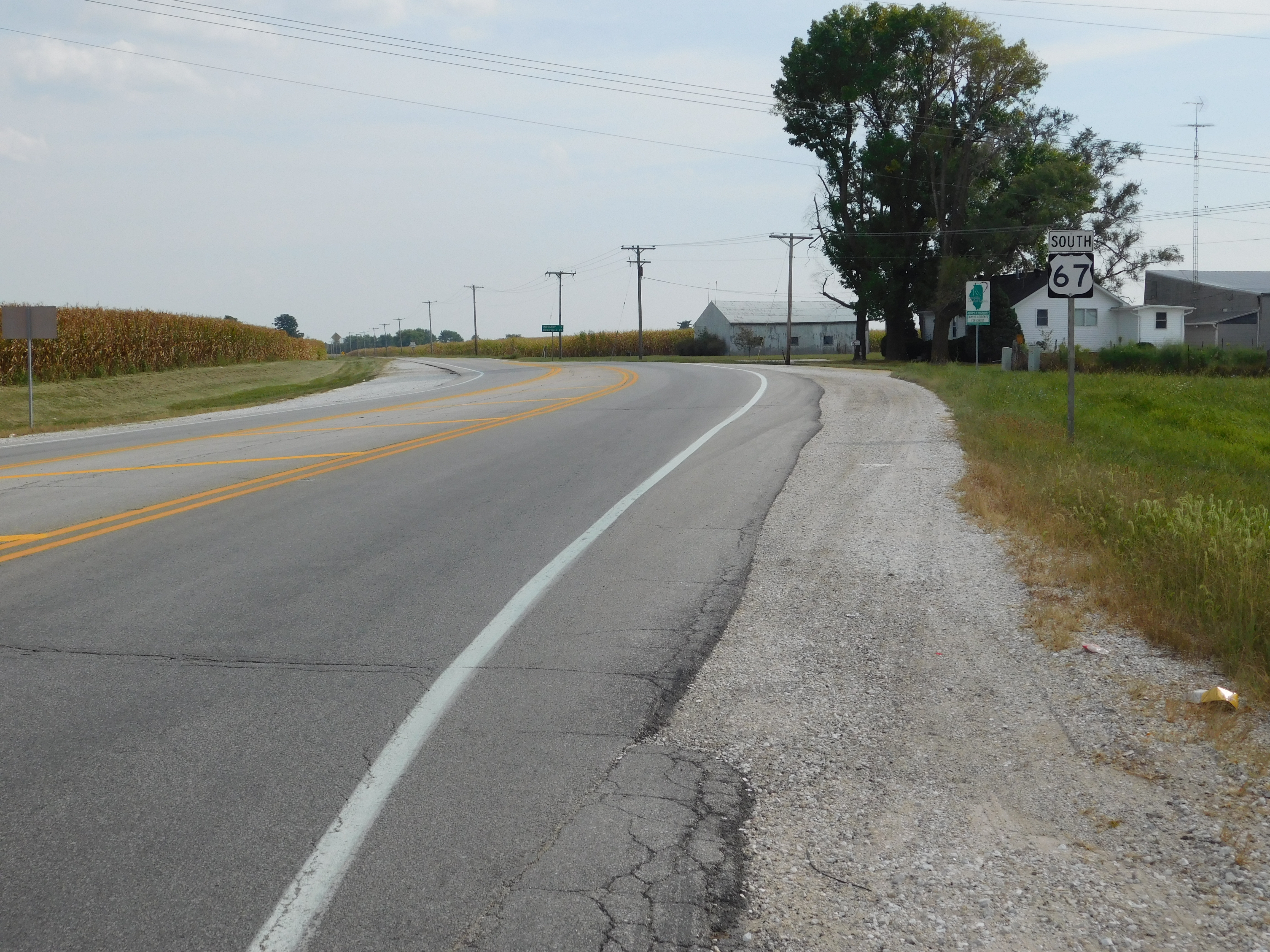 U.S. Route 67 just south of U.S. Route 136 in Macomb, Illinois.